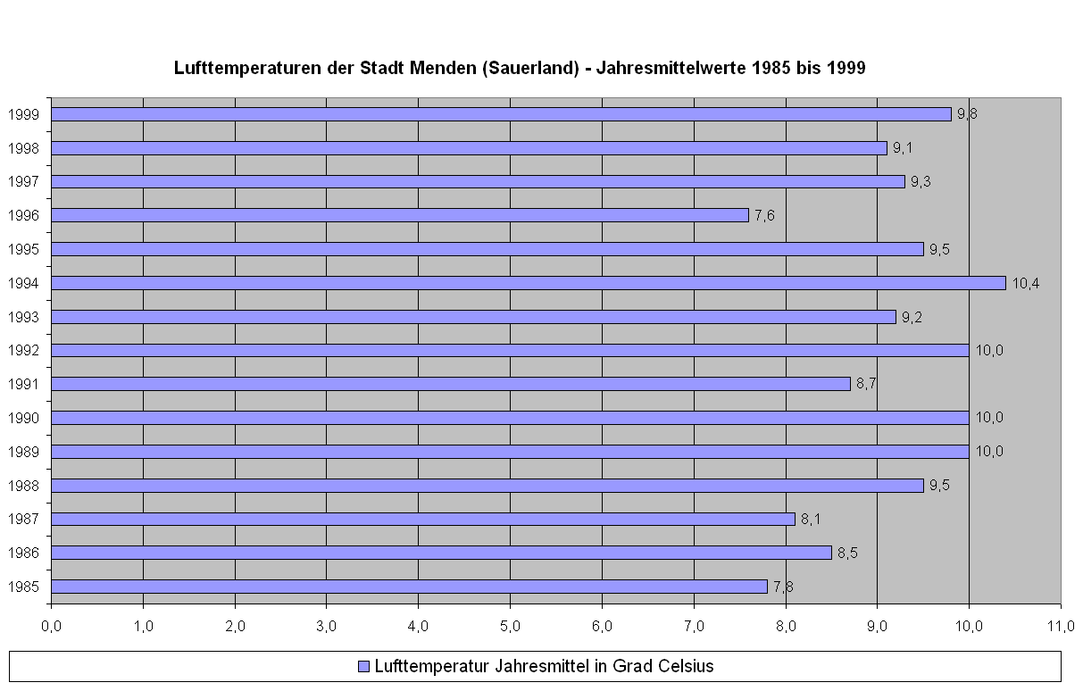 Airtemperature (mean) of Menden (Sauerland) over a period of 1985 to 1999. Data source: Geographische Kommission für Westfalen, GeKo-Aktuell 2001/1, Page 7.